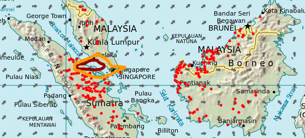 Extent of the 2013 Southeast Asian haze as of 19 June. Wind direction is shown by the grey arrows. Red dots indicate a haze source (hotspot). The red encirclement indicates areas where the haze is the thickest, while the orange encirclement indicates areas where the haze is significantly thick.